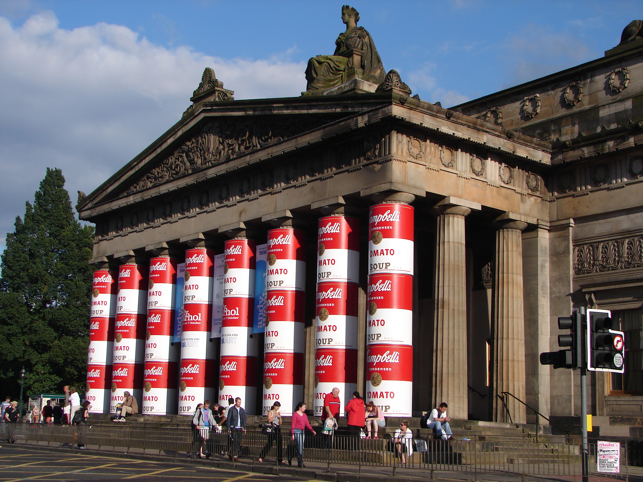 Columns of the Royal Scottish Academy portico in Edinburgh decorated with Andy Warhol's Campbell Soup Can